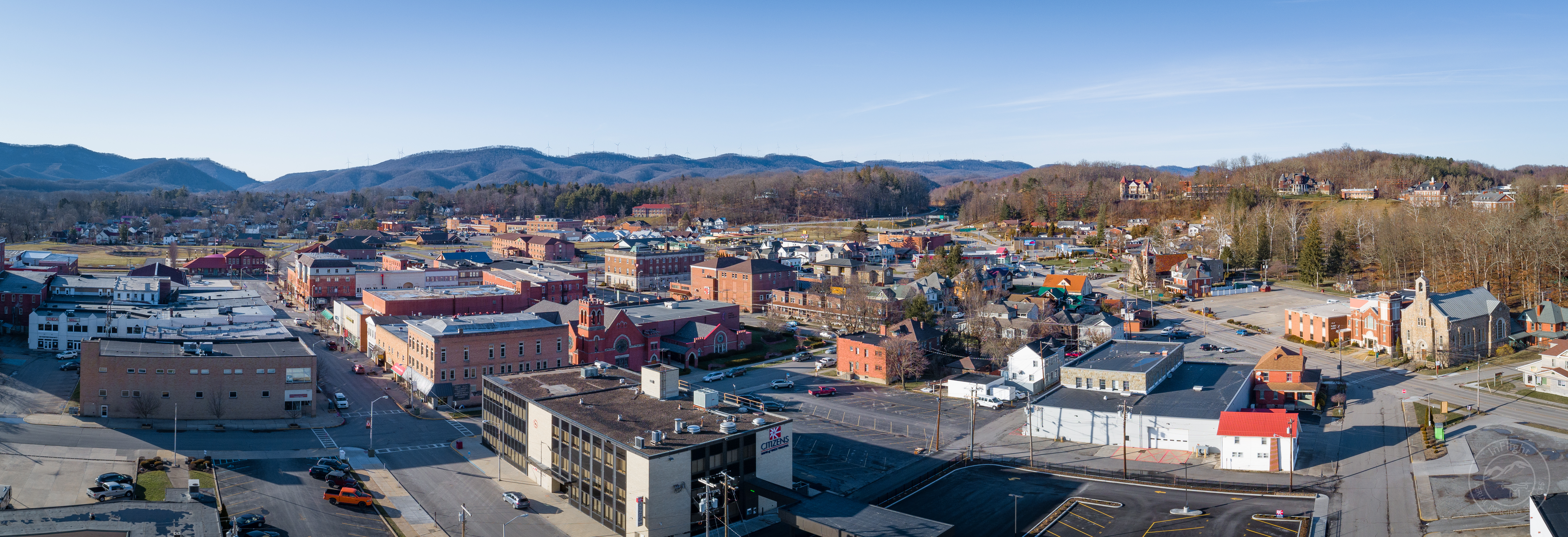 Downtown Elkins, WV (courtesy of Inflight AIS, LLC)